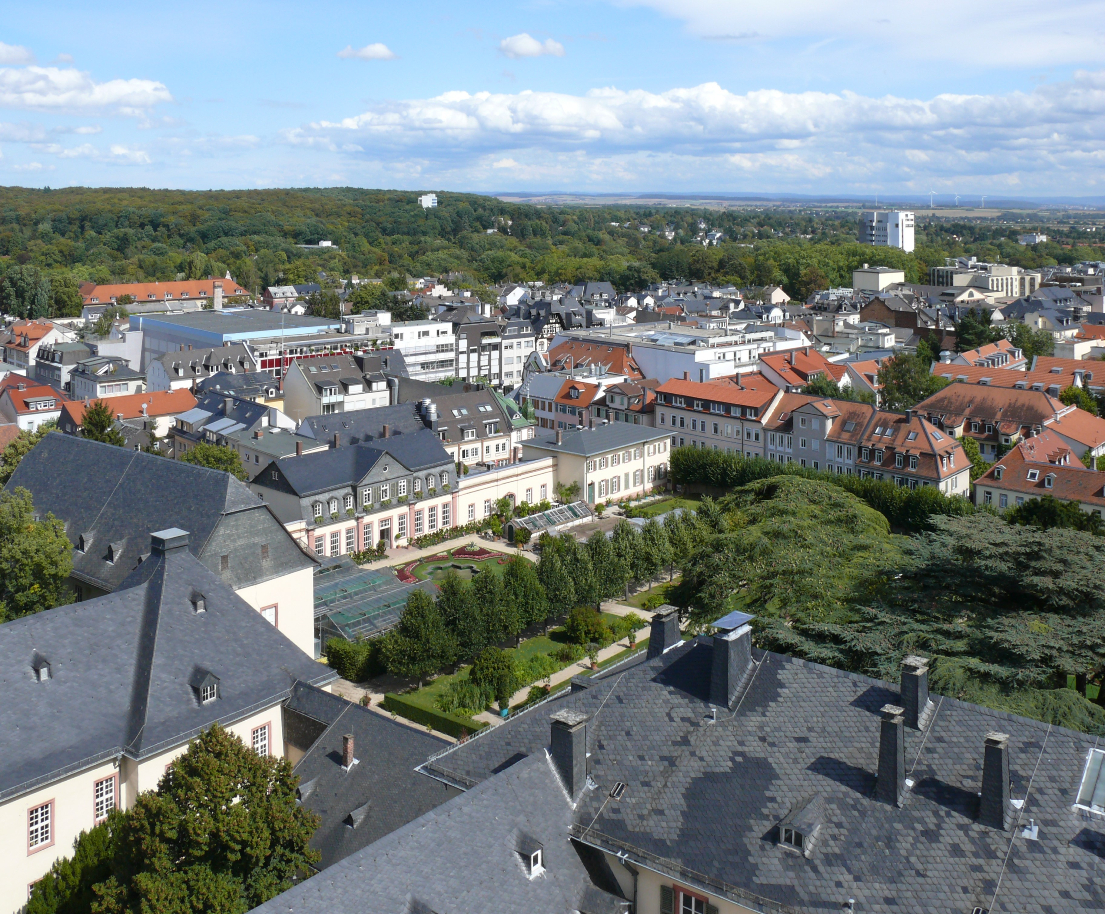 Part of "Schlossgarten" in Bad Homburg, Hesse, Germany